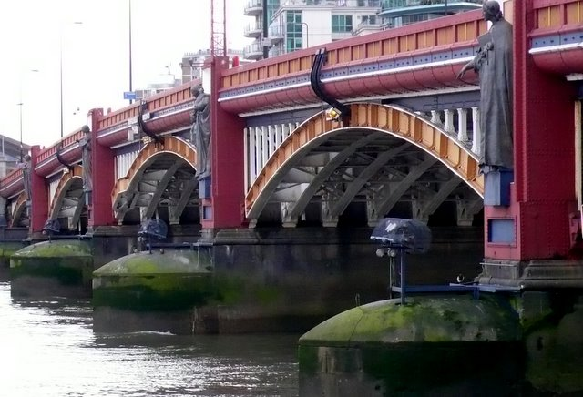 Vauxhall Bridge, London. View of the downstream side (north east) of the bridge from Millbank on the north bank of the Thames river.